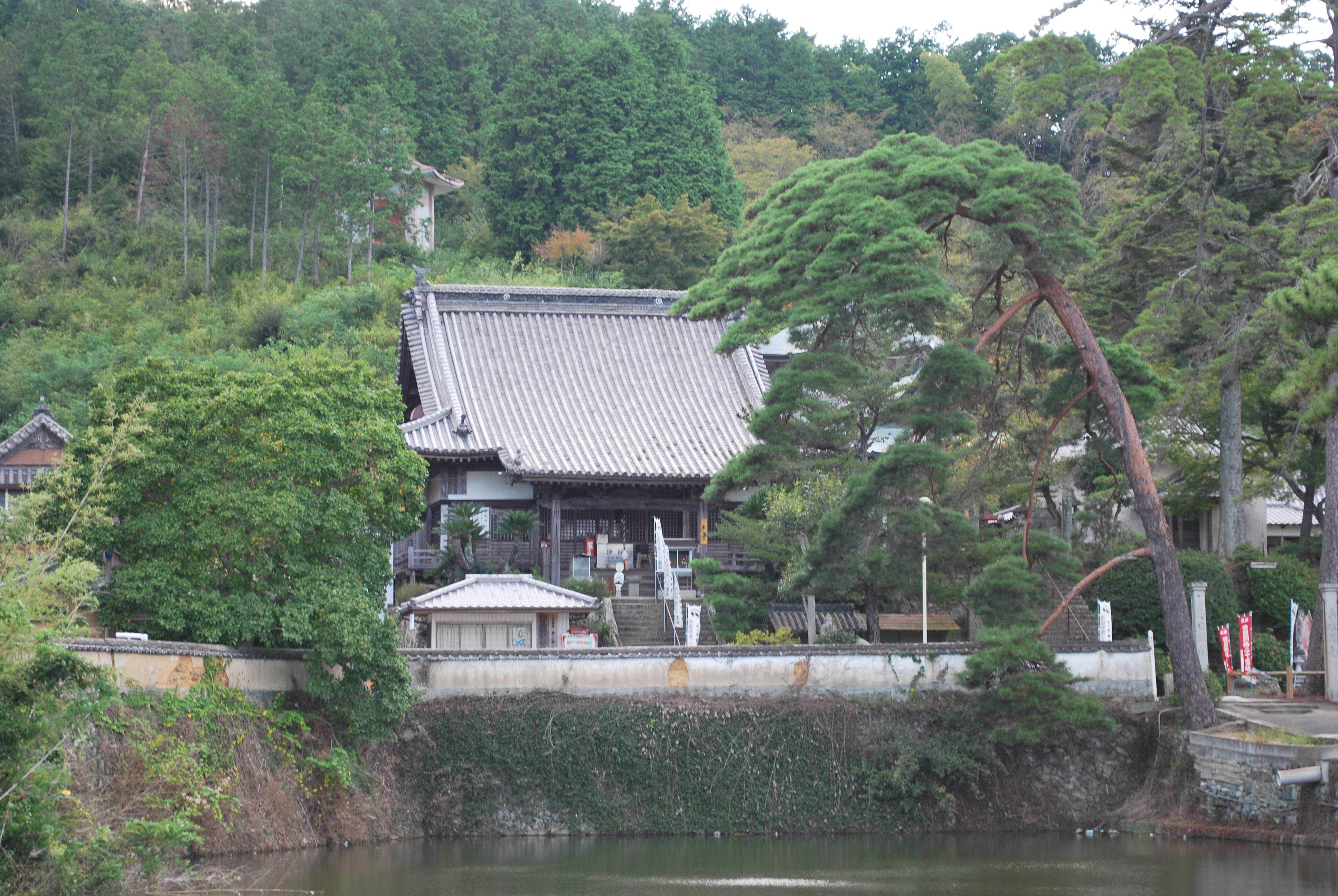 Main temple, Dōgaku-ji